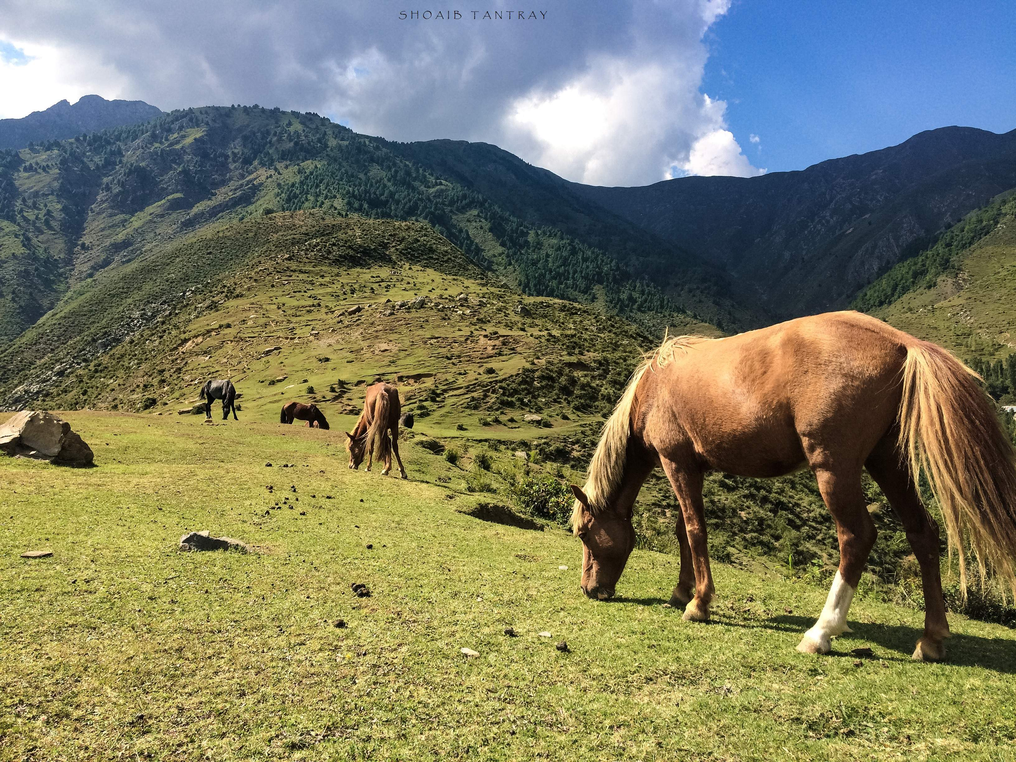 TanjmaidanA famous hill tapu near sanglaab coloney khairkoot (وادی سنگلاب) Banihal. ٹانجئ میدان وادی سنگلاب کے خیرکوٹ گاوں کے سنگلاب کالونی کے نزدیک ایک چھوٹا سا پہاڑی ٹاپو ہے جہاں سے وادی سنگلاب کے ساتھ ساتھ پورے بانہال کا نظارہ کیا جا سکتا ہے